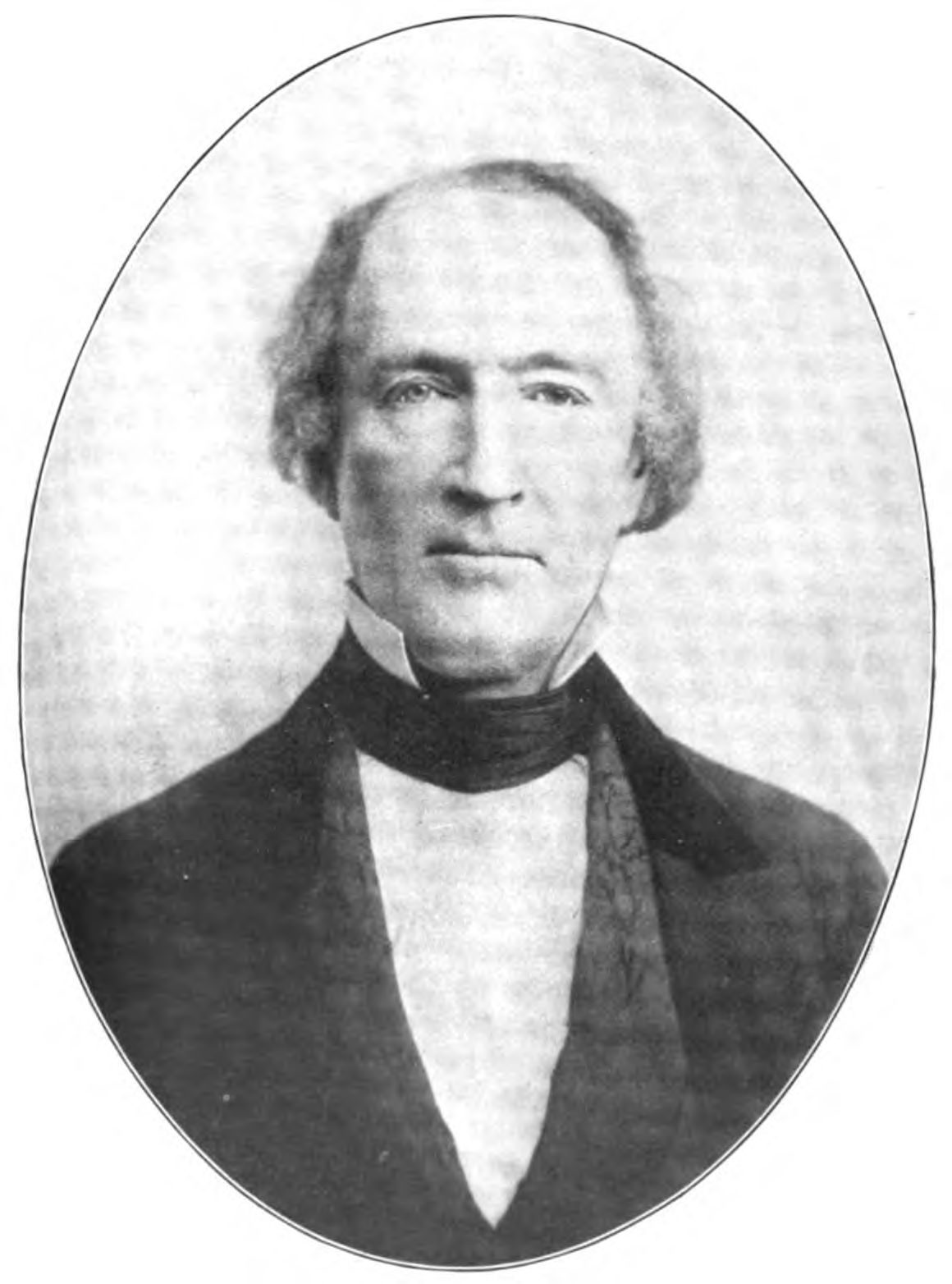 Morton Matthew McCarver politician in Oregon, and town founder in Iowa, Oregon, California, and Washington.